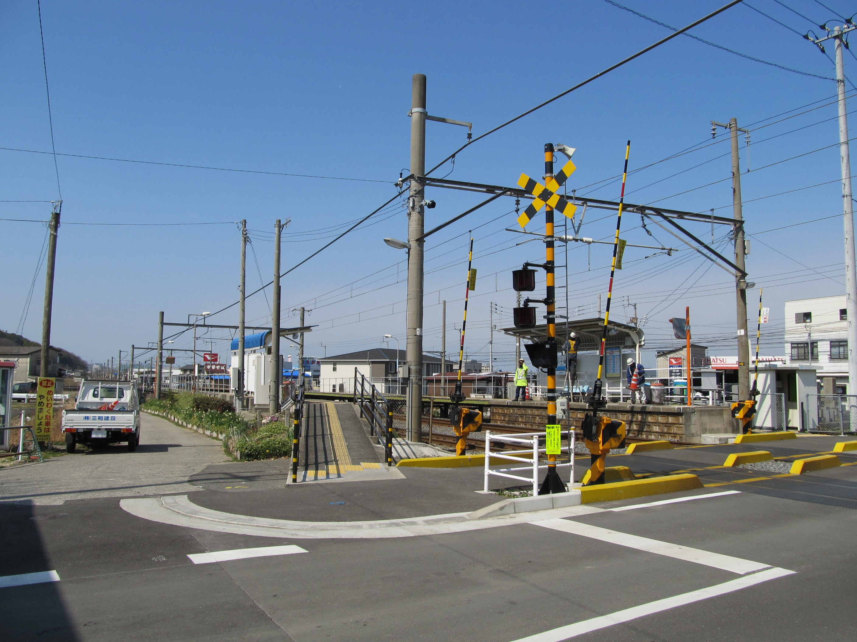 Shikoku Railway Yosan Line Yasoba Station Platform